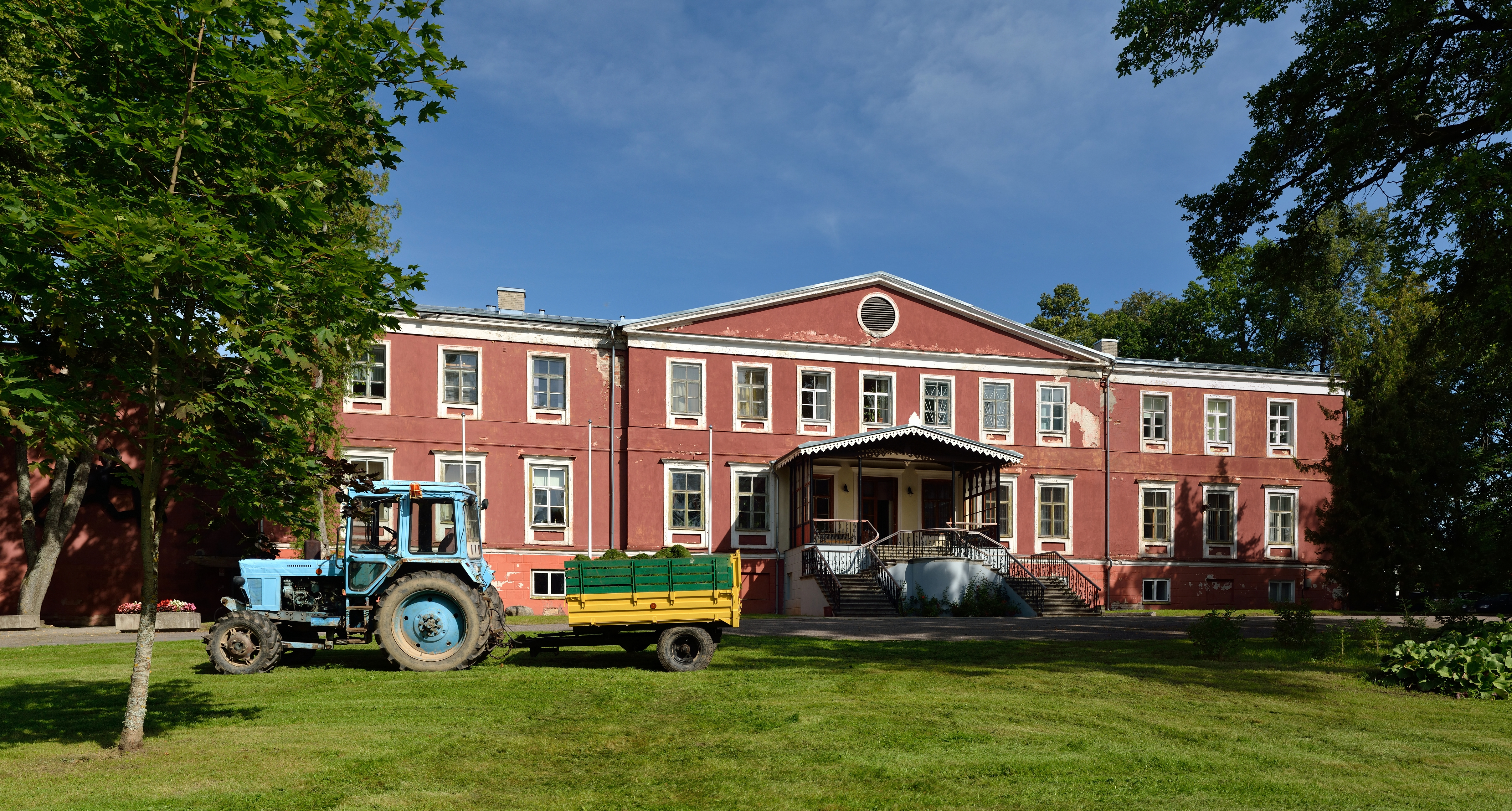 Vana-Võidu manor main building